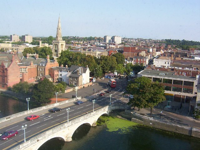 Bedford From The Park Inn Hotel Picture taken from a bedroom on the 8th floor. The hotel was originally named The County Hotel.